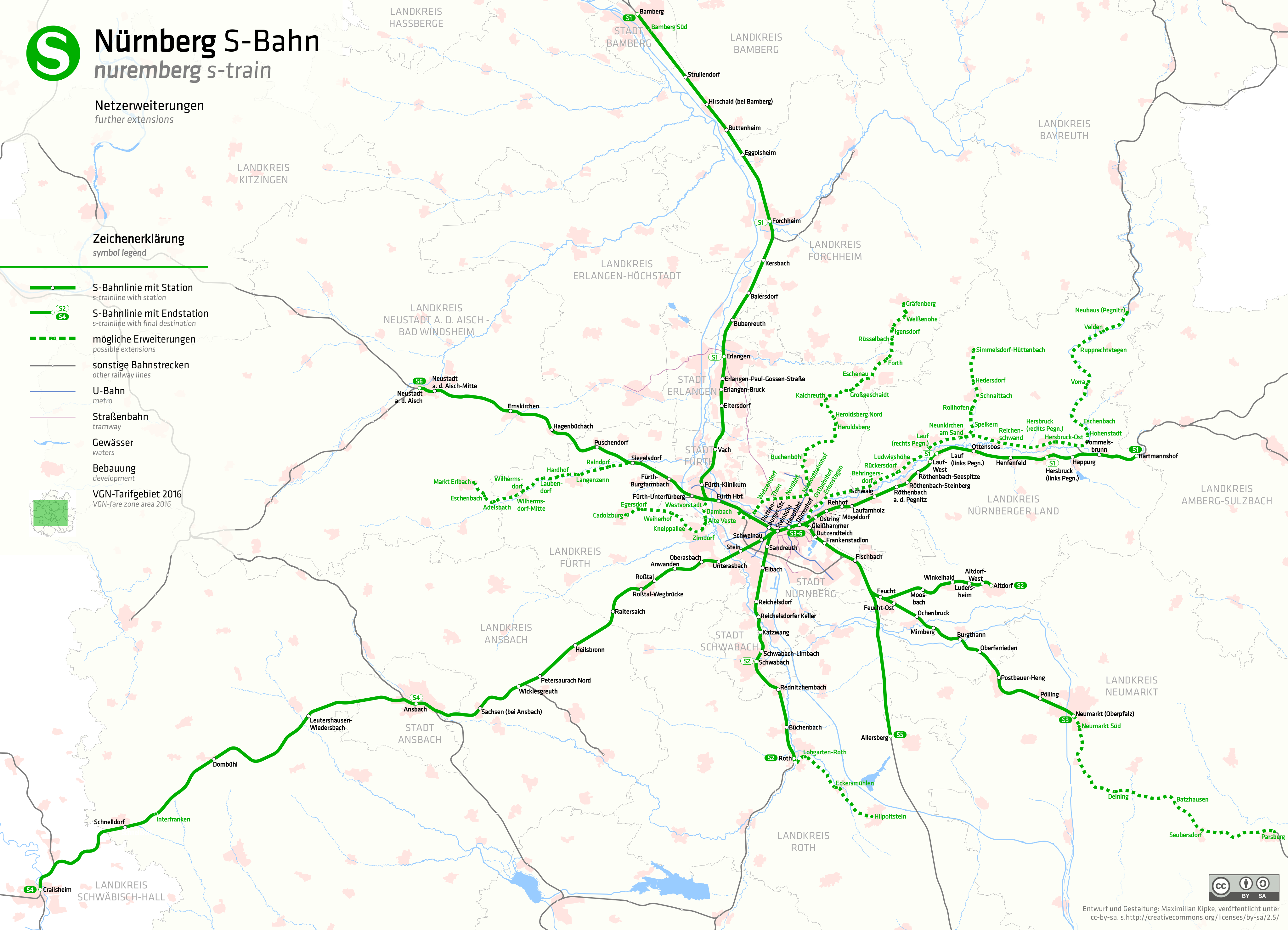 network of s-bahn nuremberg with possible further extensions